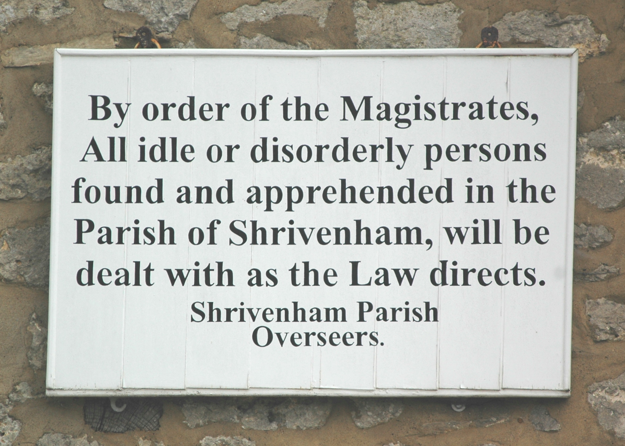 Parish notice on the west wall of Tarifa Cottage, Faringdon Road, Shrivenham